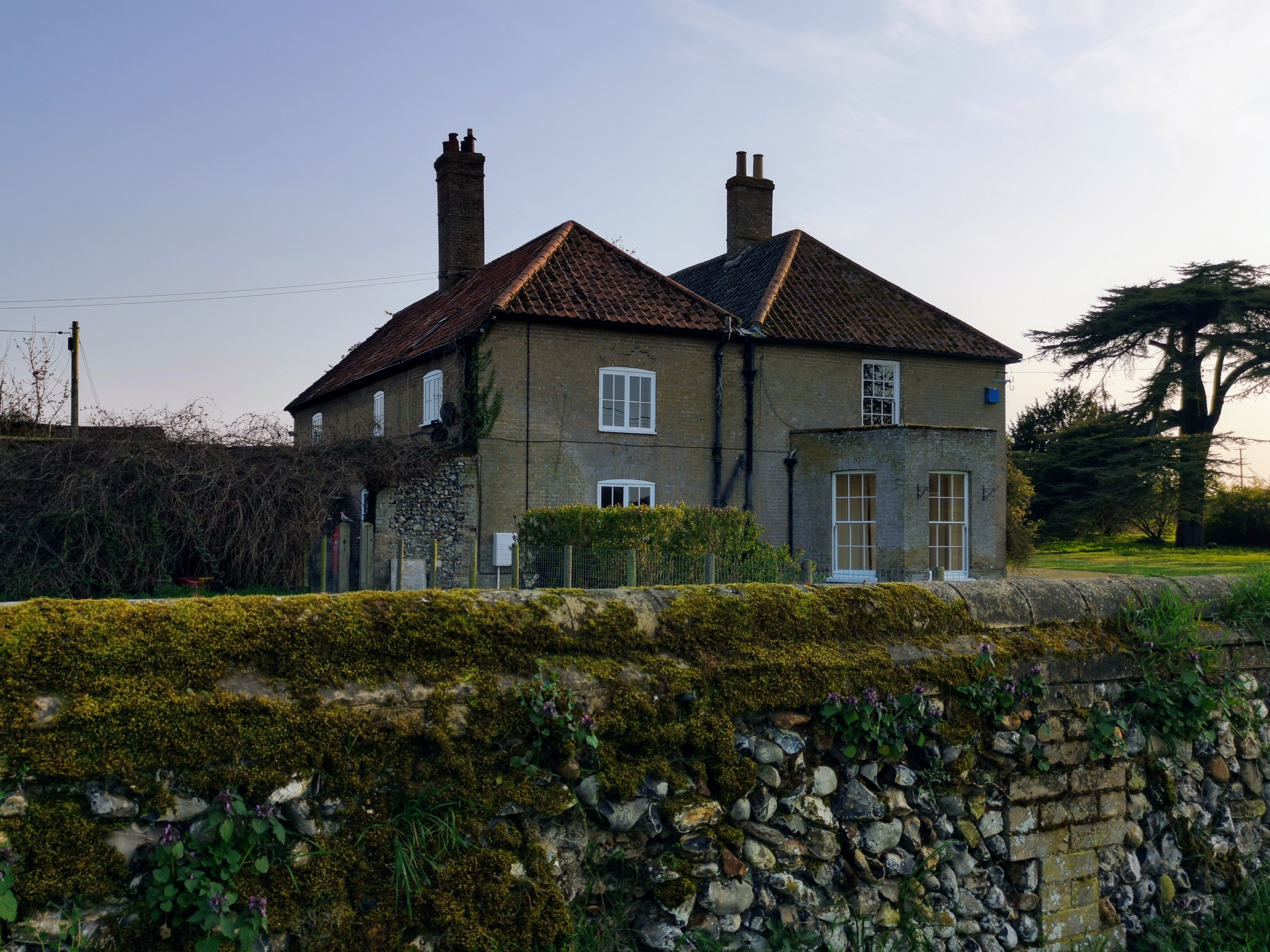 The Grade II listed Green Farmhouse in Timworth, Suffolk, UK